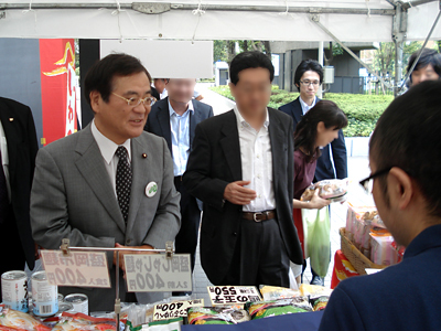 Yoshio Hachiro, Minister of Economy, Trade and Industry, inspected the fair in support of the disaster stricken area at the Ministry of Economy, Trade and Industry in Chiyoda Ward, Tōkyō Metropolis on September 7, 2011.(For terms of use, see 利用規約（METI/経済産業省）.)